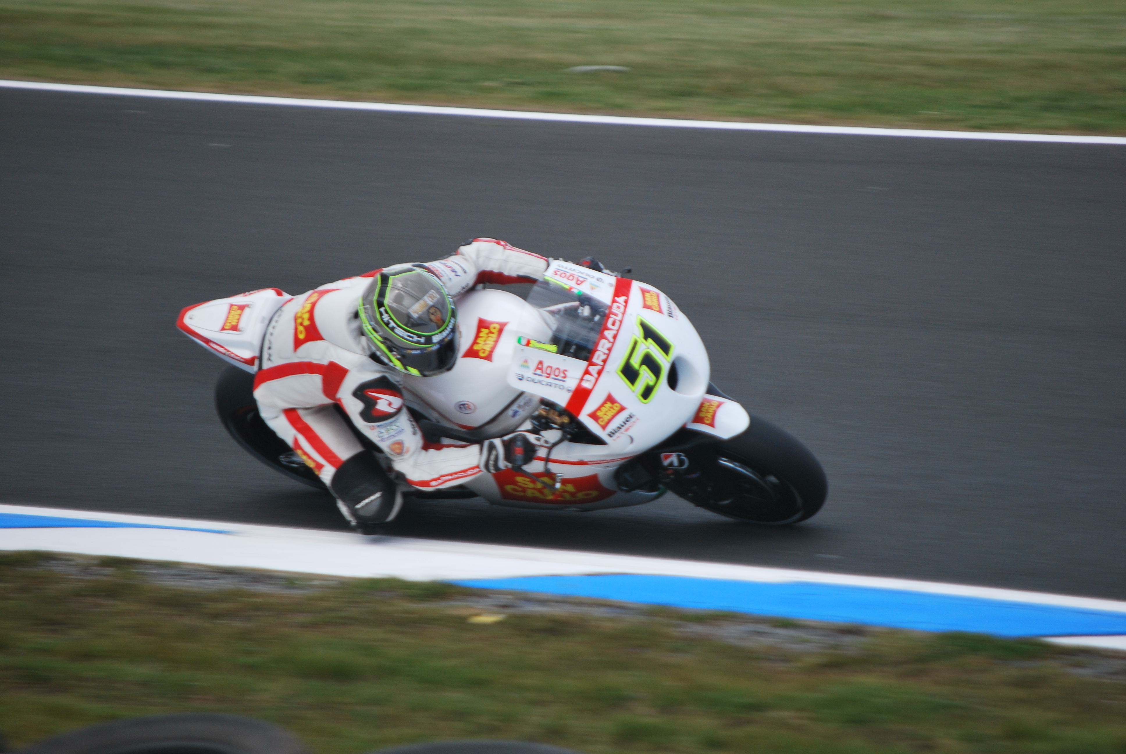 2012 AirAsia Australian Grand Prix - MotoGP - #51 Michele Pirro - San Carlo Honda Gresini - FTR